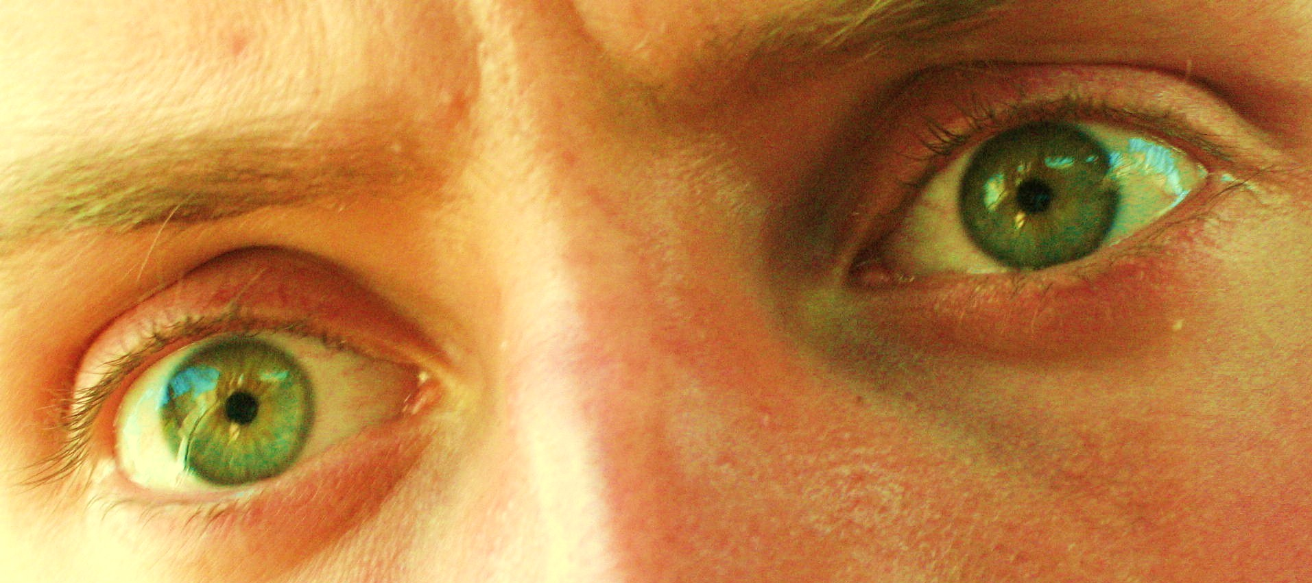 my eyes